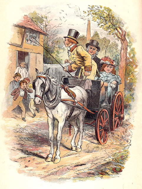 Mr Boffin in his glory